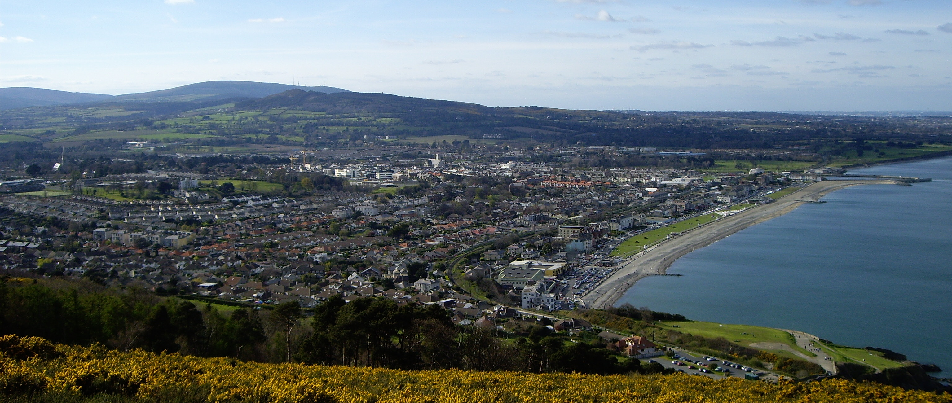 View of Bray from Bray Head